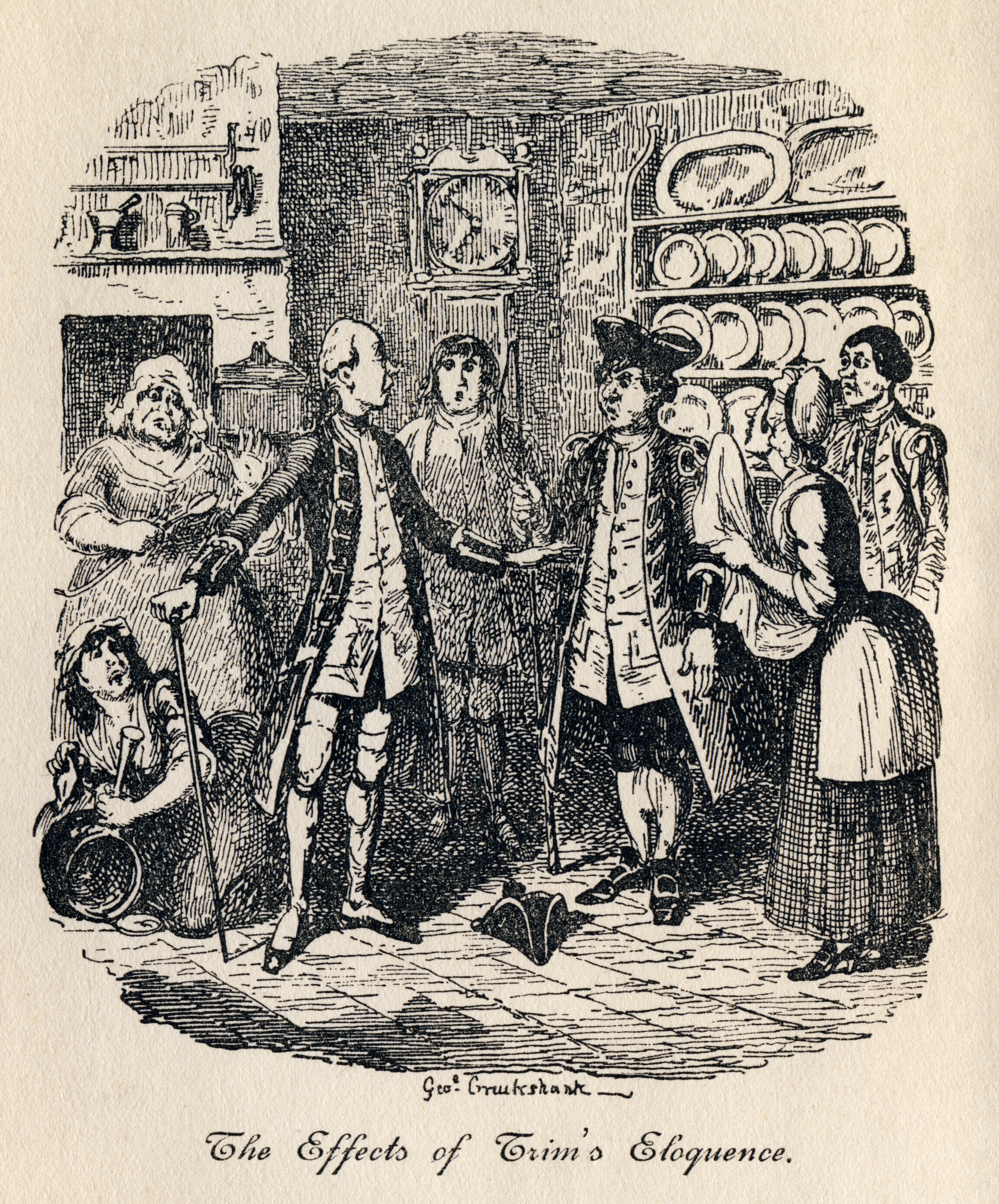 From George Cruikshank's illustrations to Laurence Sterne's Tristram Shandy. Plate I: The Effects of Trim's Eloquence